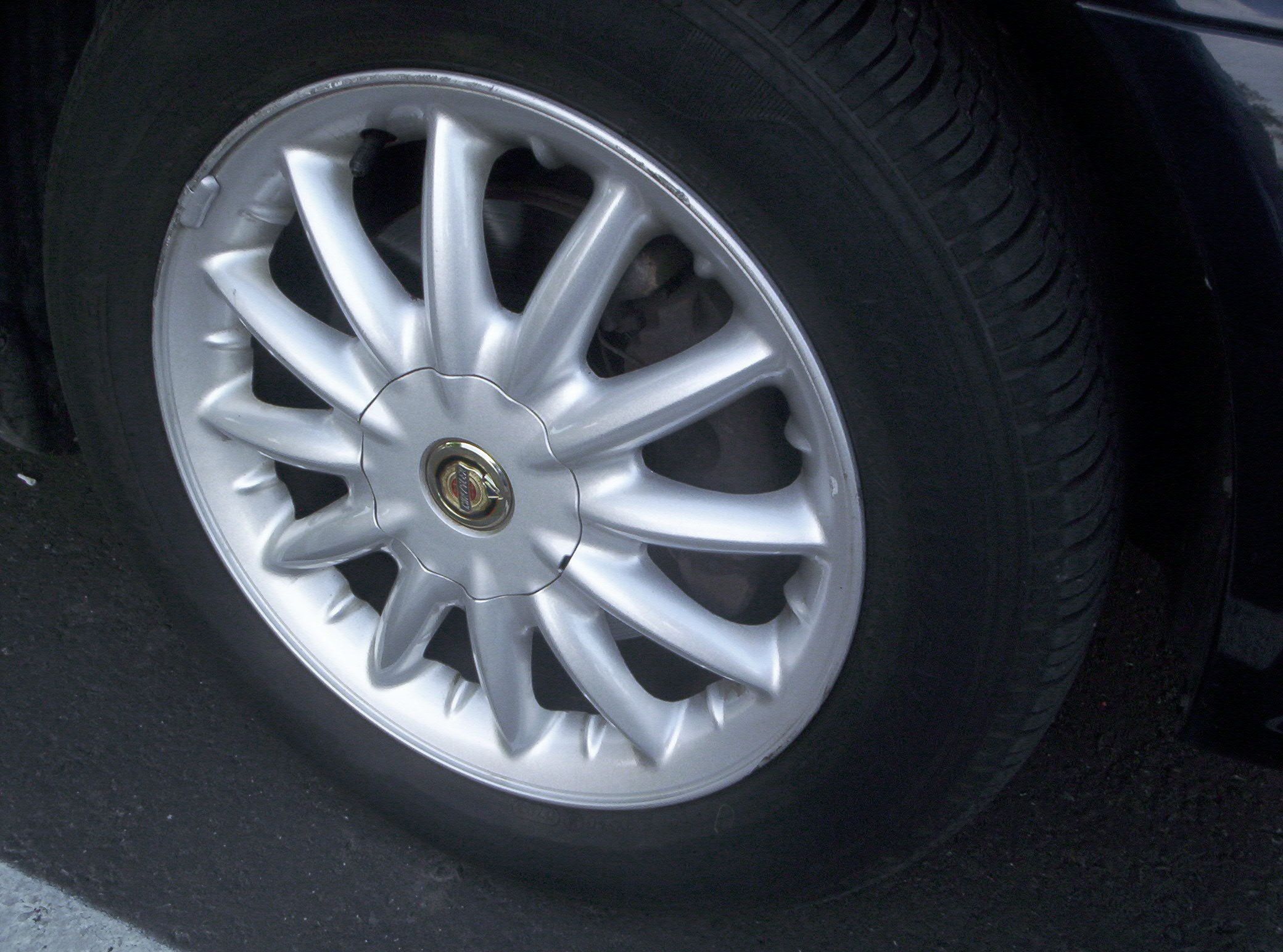 Aluminum Alloy wheel